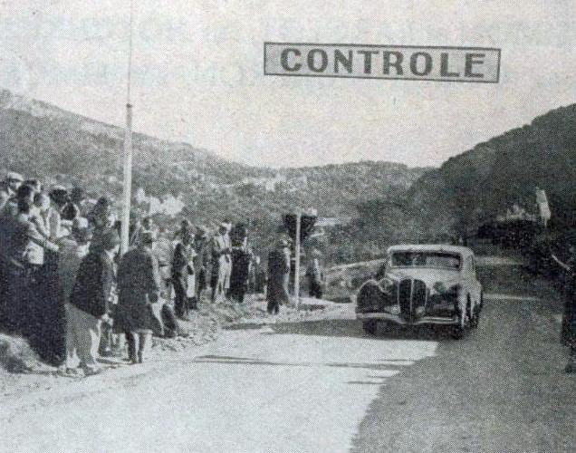 Entry #31 is french drivers Joseph Paul and Marcel Çontet at passport checkpoint in a Delahaye 135 M (license "4400 YB5") in the 1939 Rallye Monte Carlo, which they won (victory shared with J. Trevoux and M. Lesurque in a Hotchkiss 686 GS Riviéra)[1]